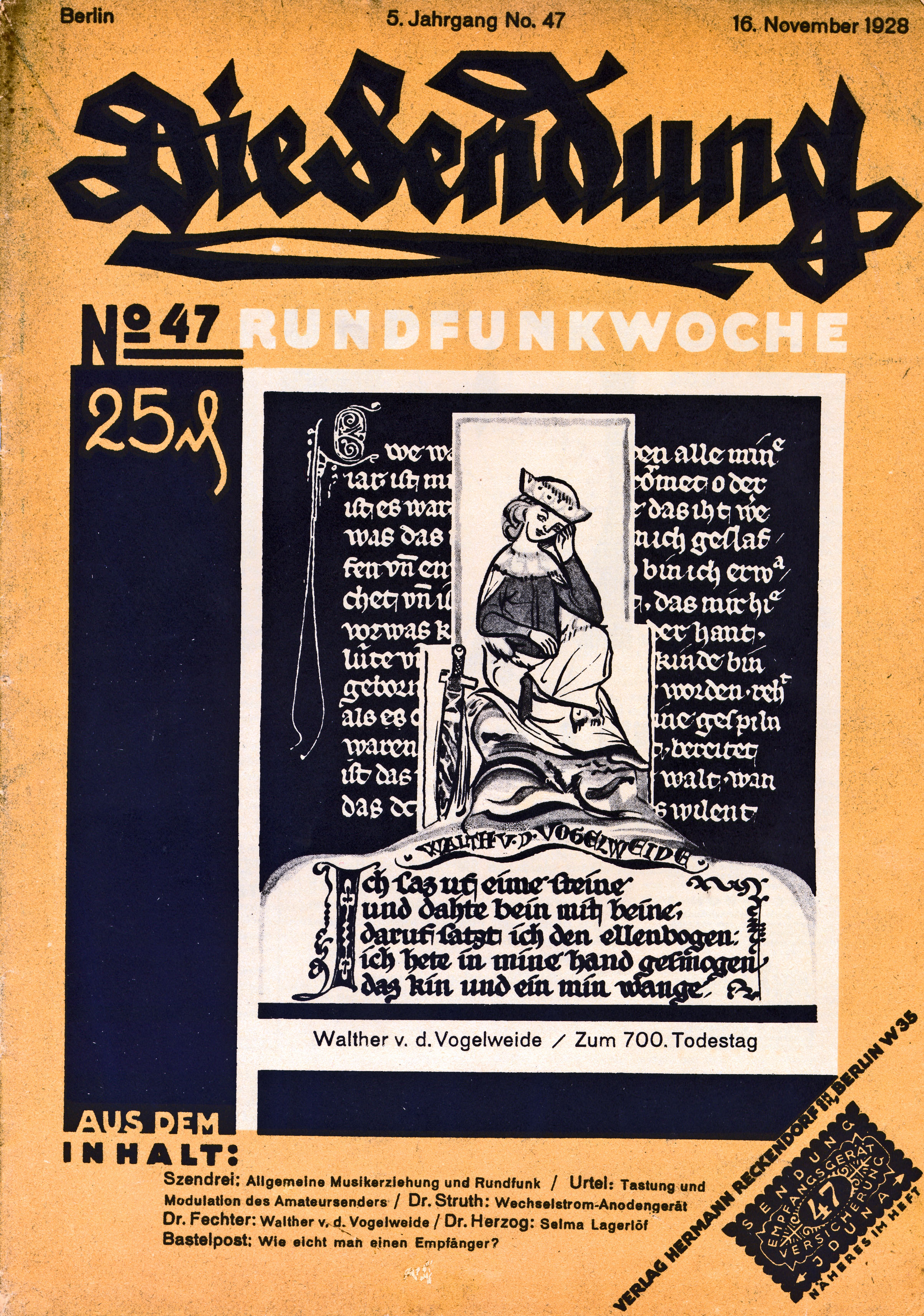 Cover of the radio publication "Die Sendung" ("The Broadcast"), celebrating the medieval poet Walther von der Vogelweide. Publisher Hermann Reckendorf got pressure from the Nazis and probably committed suicide in 1936.